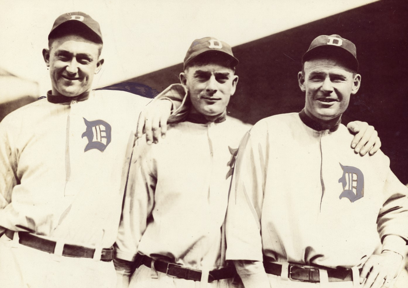 1912 Detroit Tigers outfielders: Ty Cobb (left), Bobby Veach (center), and Sam Crawford (right)